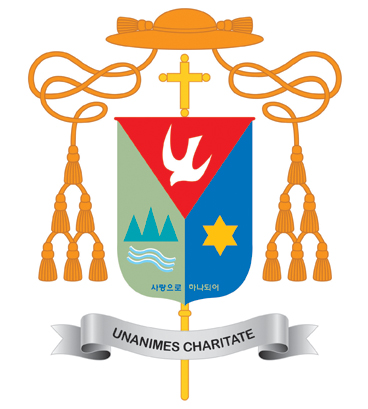 Coats of arms of Bishop Luke Kim Woon-hoe